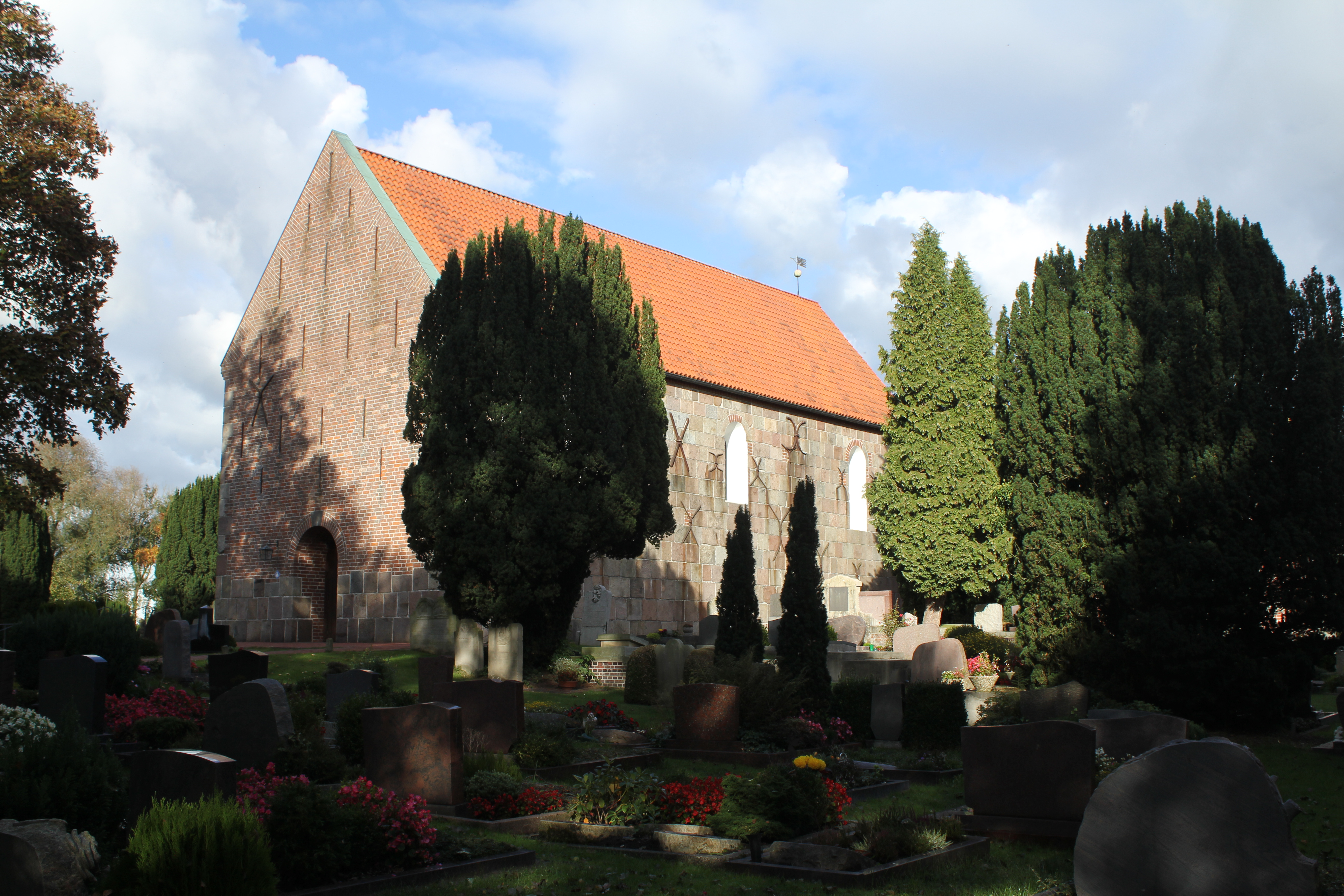 The church of Pakens.